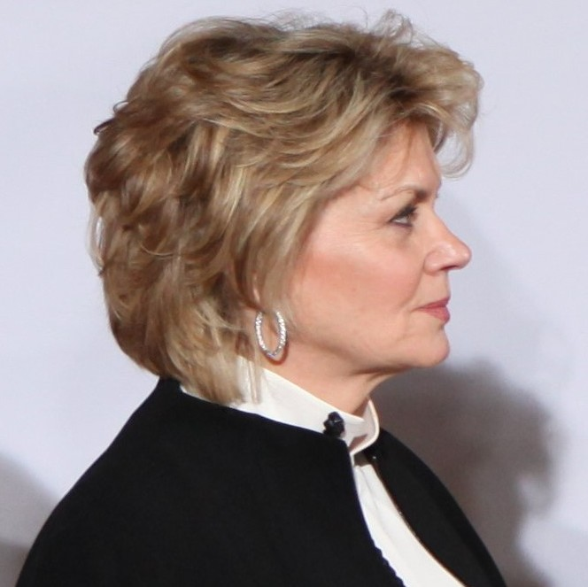 L to Rː Director BRCK Juliana Rotich and Anne Finucane, Vice-Chairman of Bank of America at Women20 Summit in Berlin, April 2017. (cropped from File:Family photo of the panelists before the discussion at the W20 Conference (33455382203).jpg)